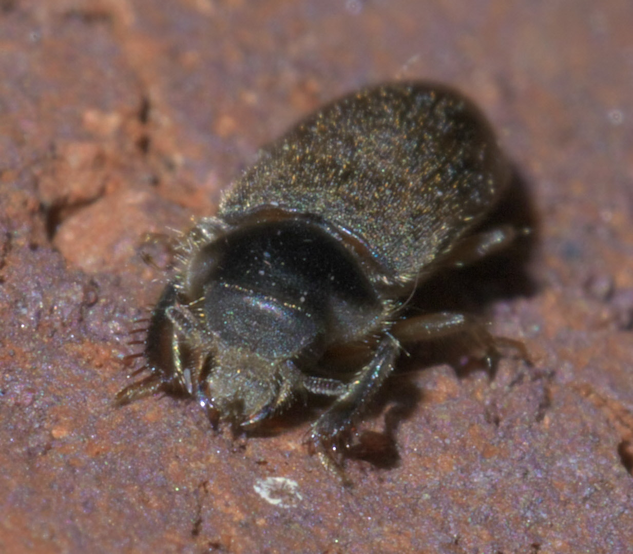 Heterocerus mollinus, Family: Variegated Mud-loving Beetles, ID Confidence: 86